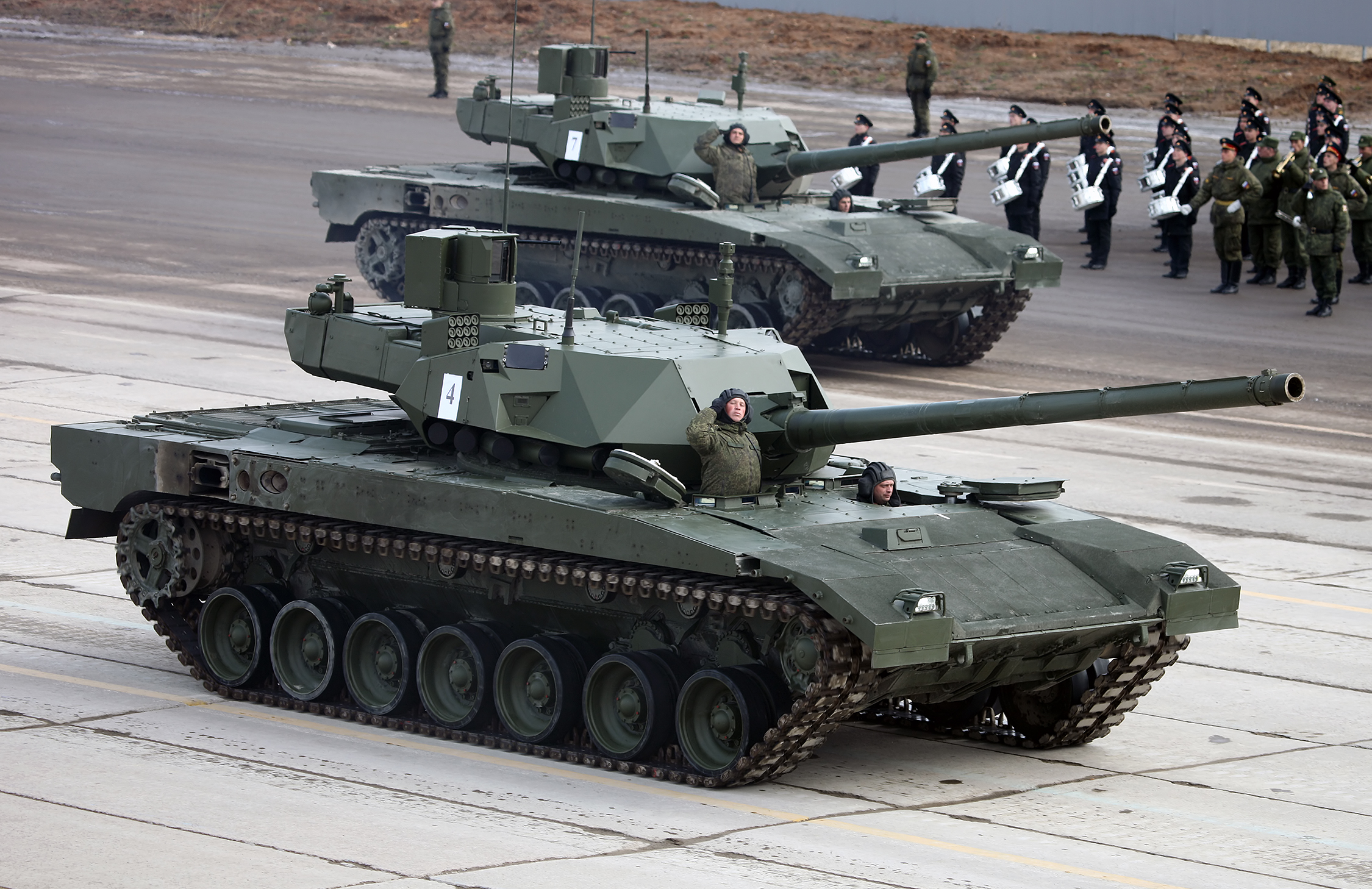 Main battle tank T-14 object 148 on heavy unified tracked platform Armata